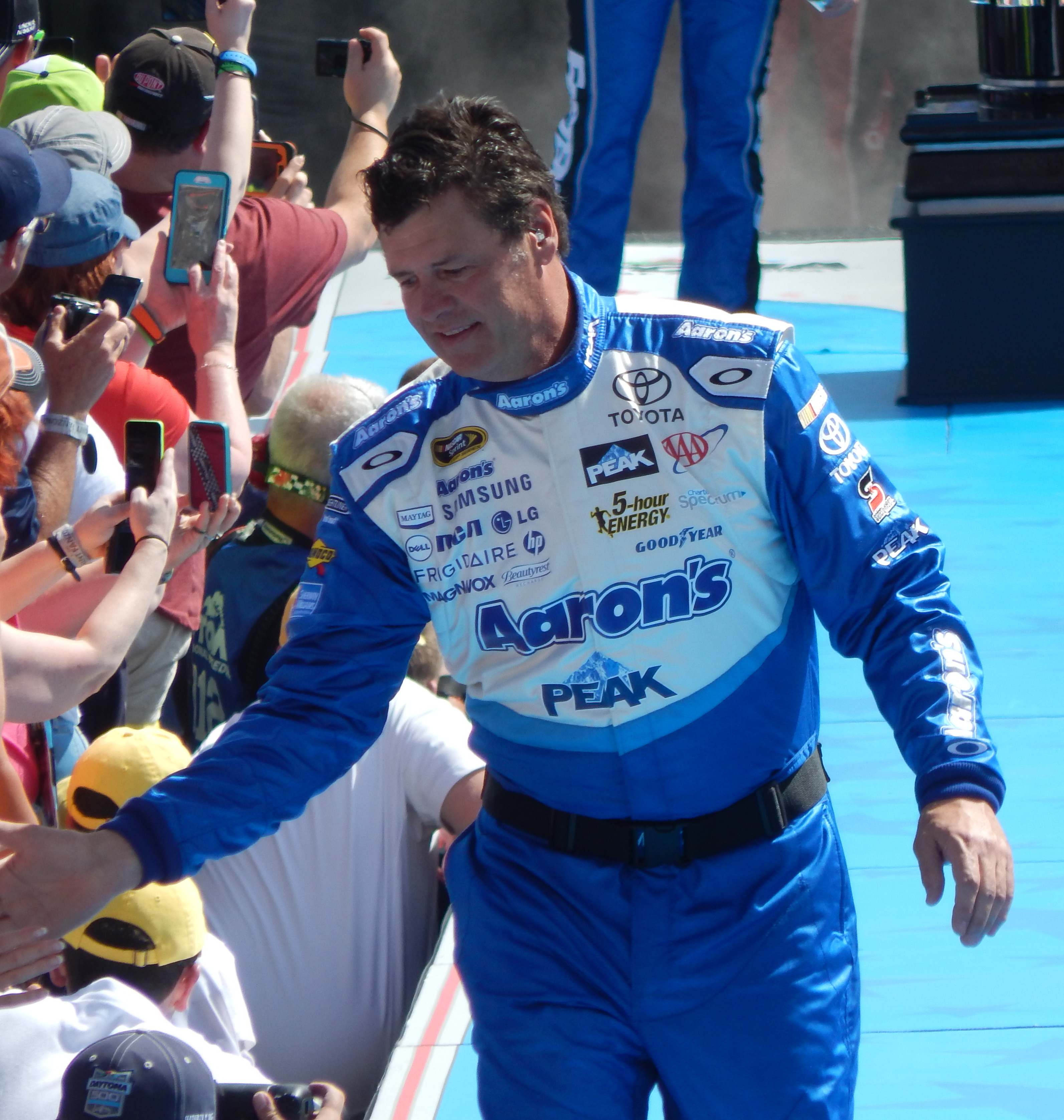 Michael Waltrip fiving people at Daytona International Speedway